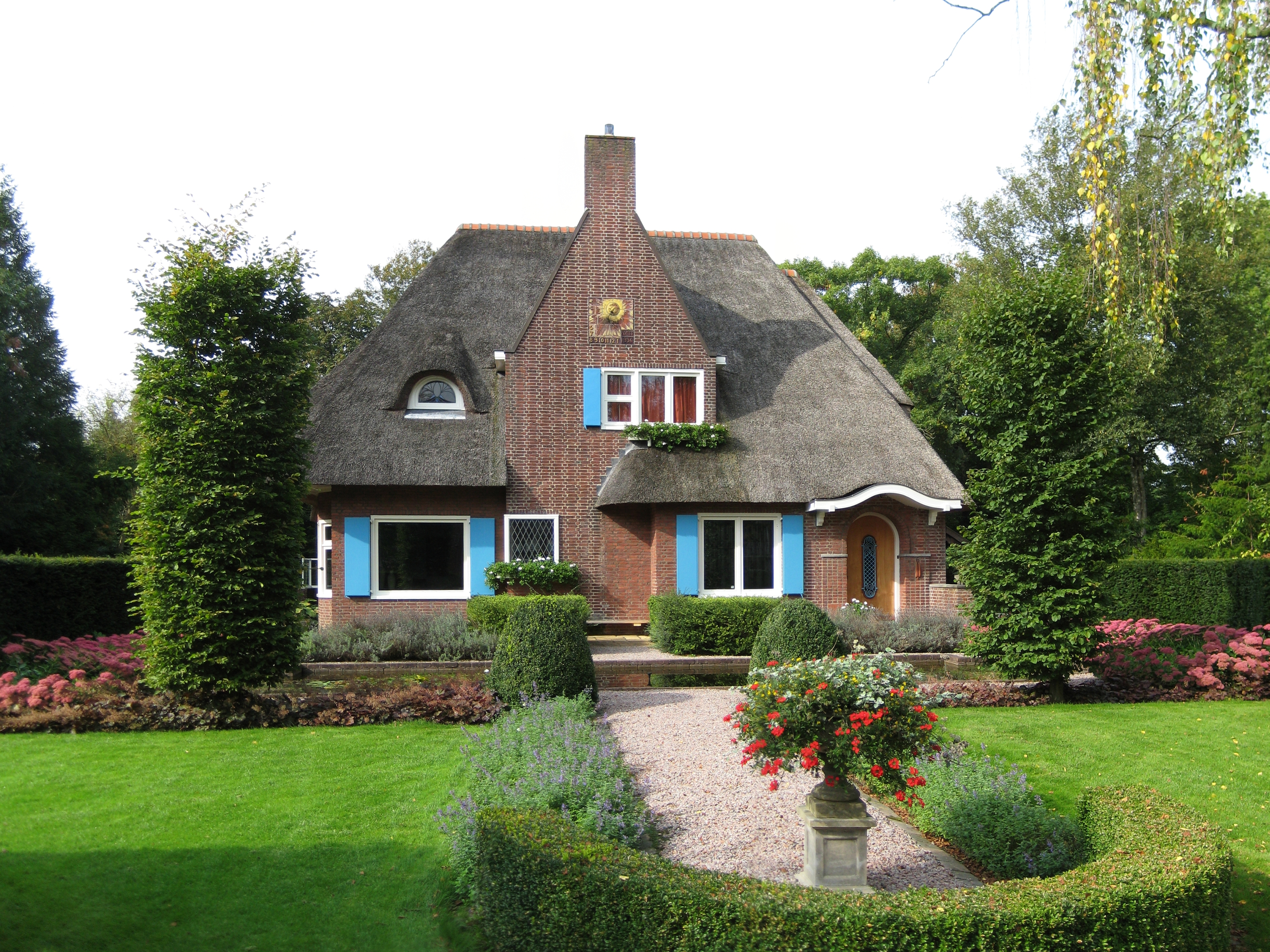 Villa (1936) in Haren, a village in the Dutch province of Groningen.